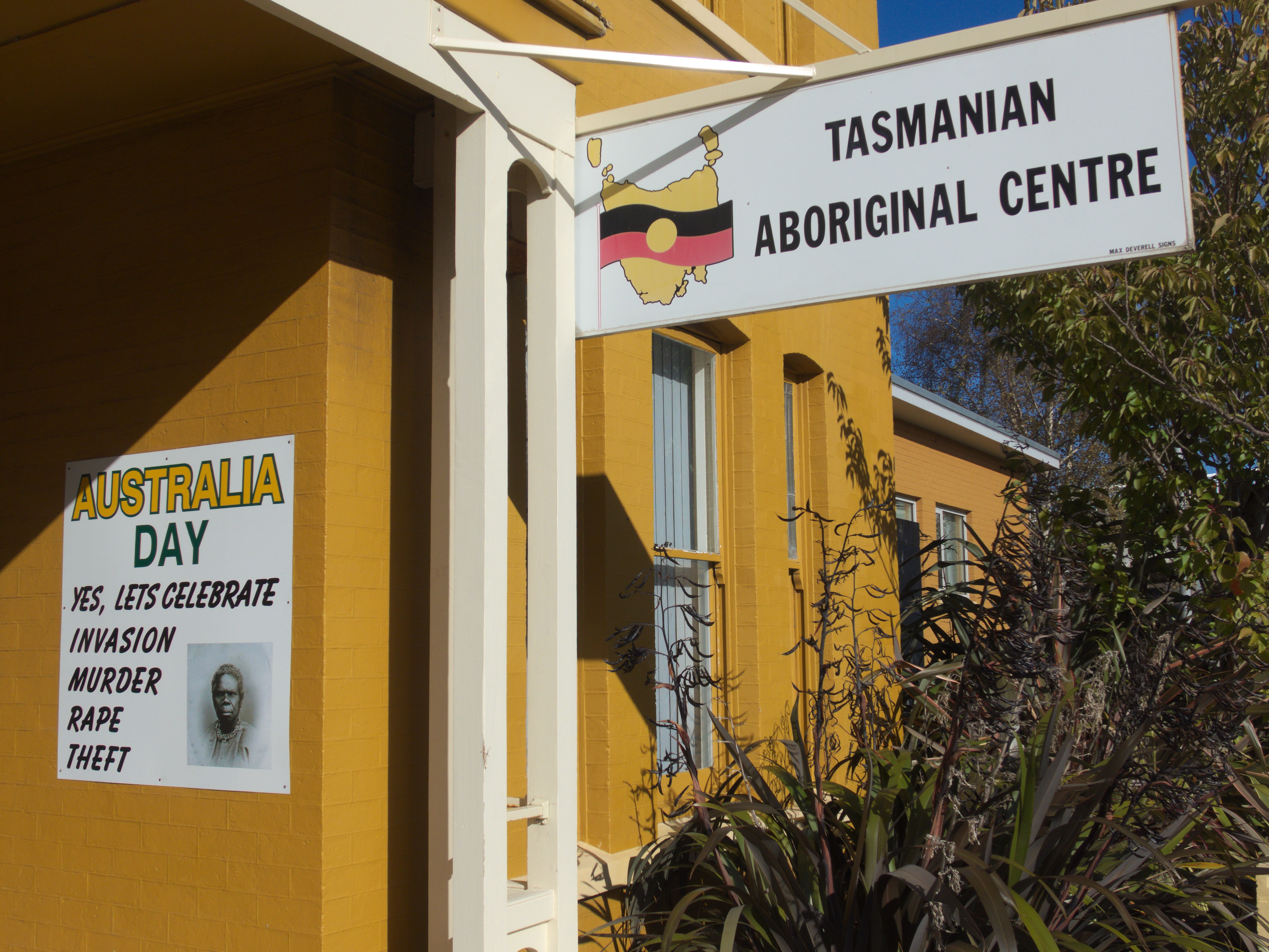 Tasmanian Aboriginal Centre in Alexander Street, Burnie.